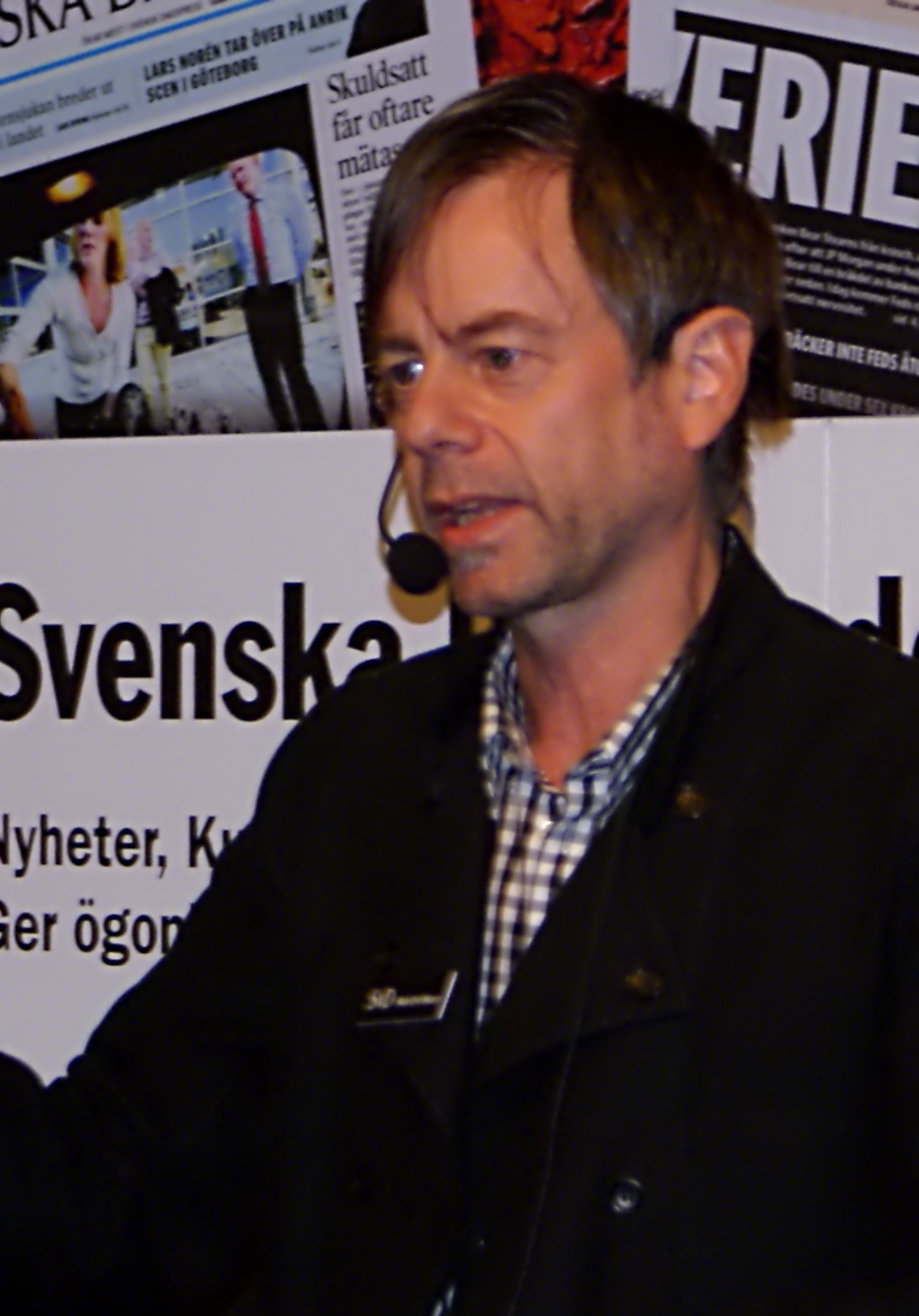 Mats-Eric Nilsson, head of editors at Svenska Dagbladet in Sweden.